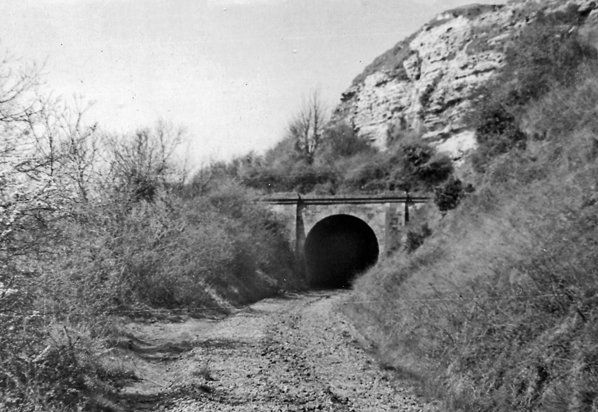 East end of St Lawrence Tunnel on abandoned Merstone - Ventnor West branch. View westward, towards Merstone: ex-Isle of Wight Central line, closed 15/9/52.